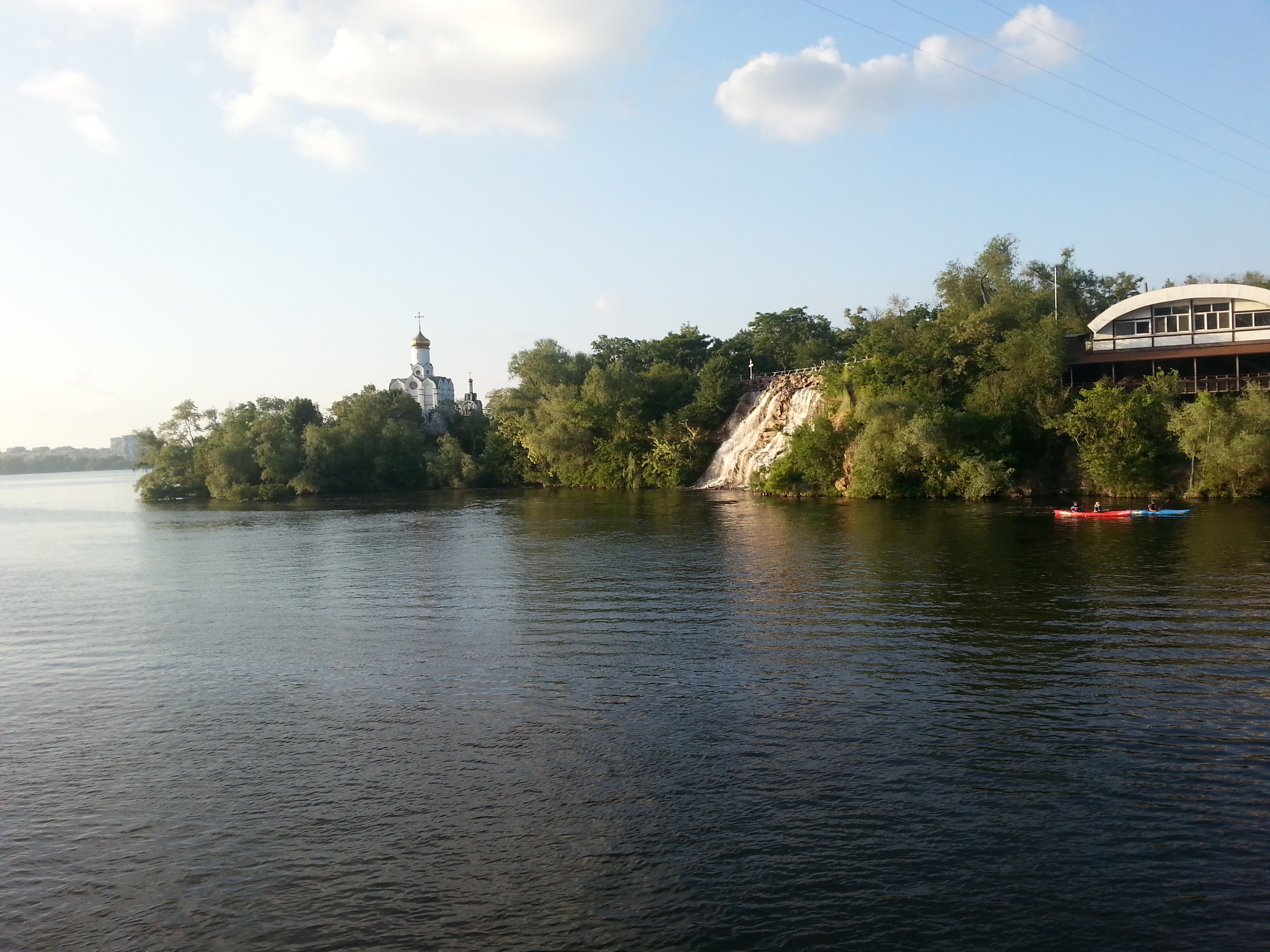 Monastyrkiy island from West view during evening. May 2019.